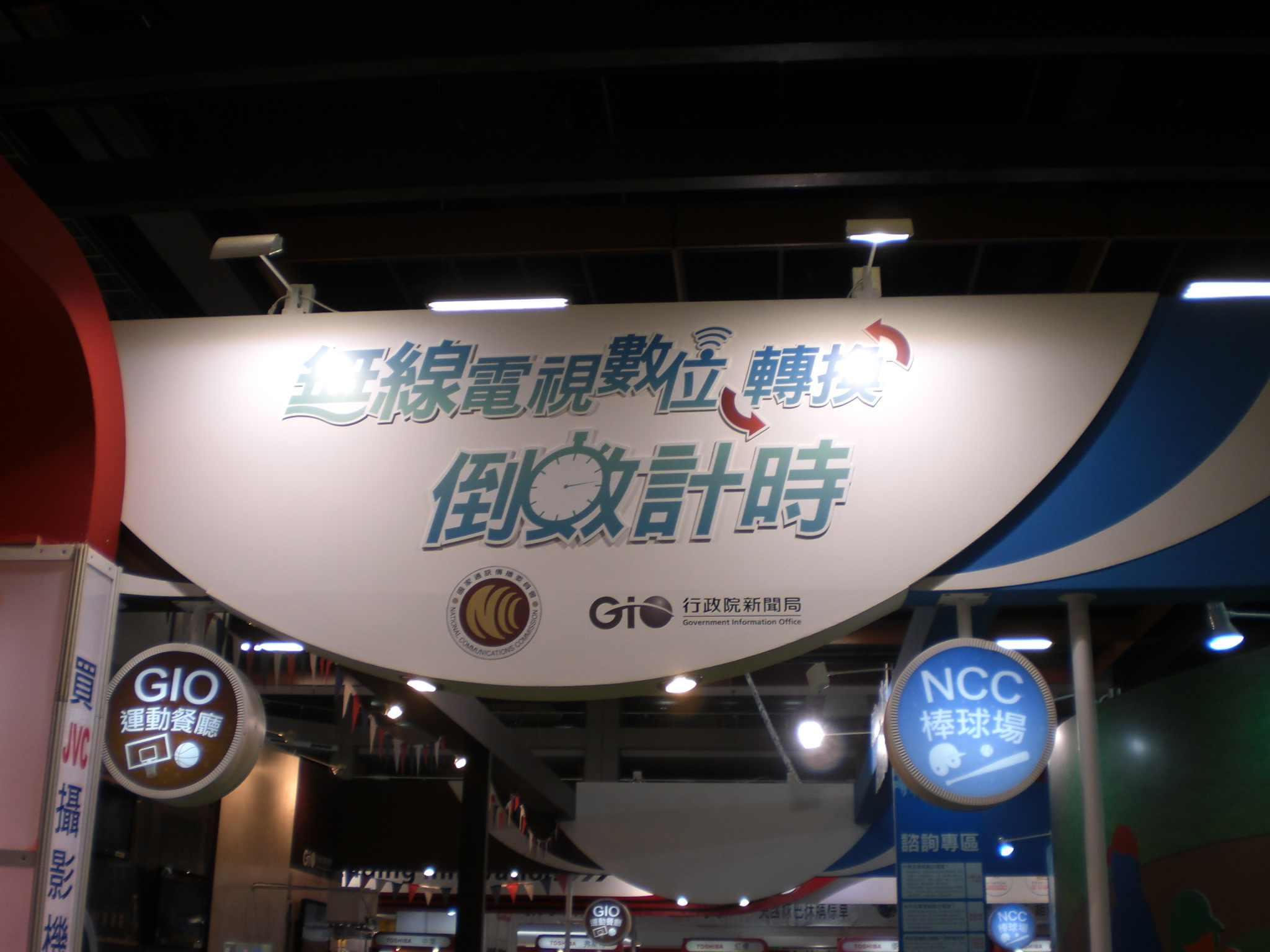 2012 Softex Taipei, day 2: The National Communications Commission (NCC) and the Government Information Office (GIO) digital terrestrial television booth banner